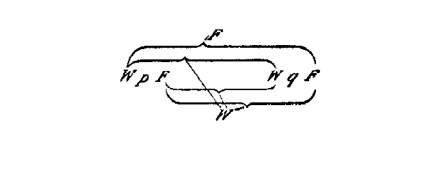 It 'an arrangement whereby the operation of Wittgenstein presented truth tables